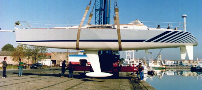 The hull of a sailboat being lifted from the water